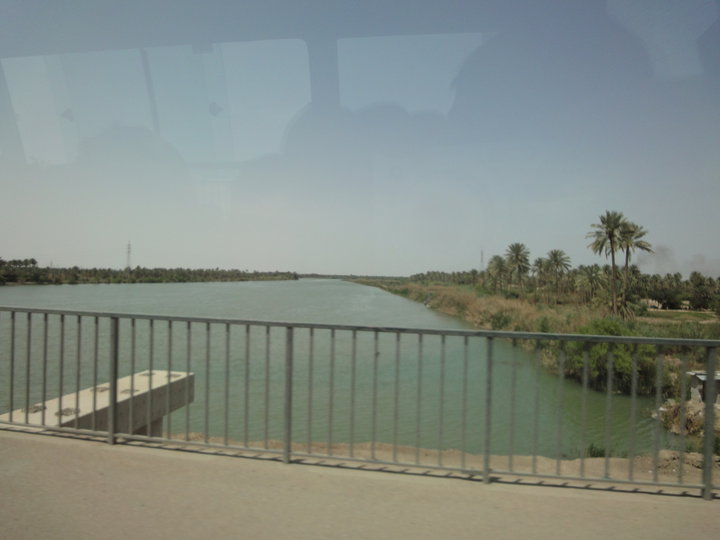 Euphrates river near Karbala in Iraq